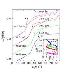 Quantum oscillations observed in YBCO superconductor at high magnetic fields